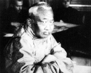 Balingiin Tserendorj Монгол: Балингийн Цэрэндорж